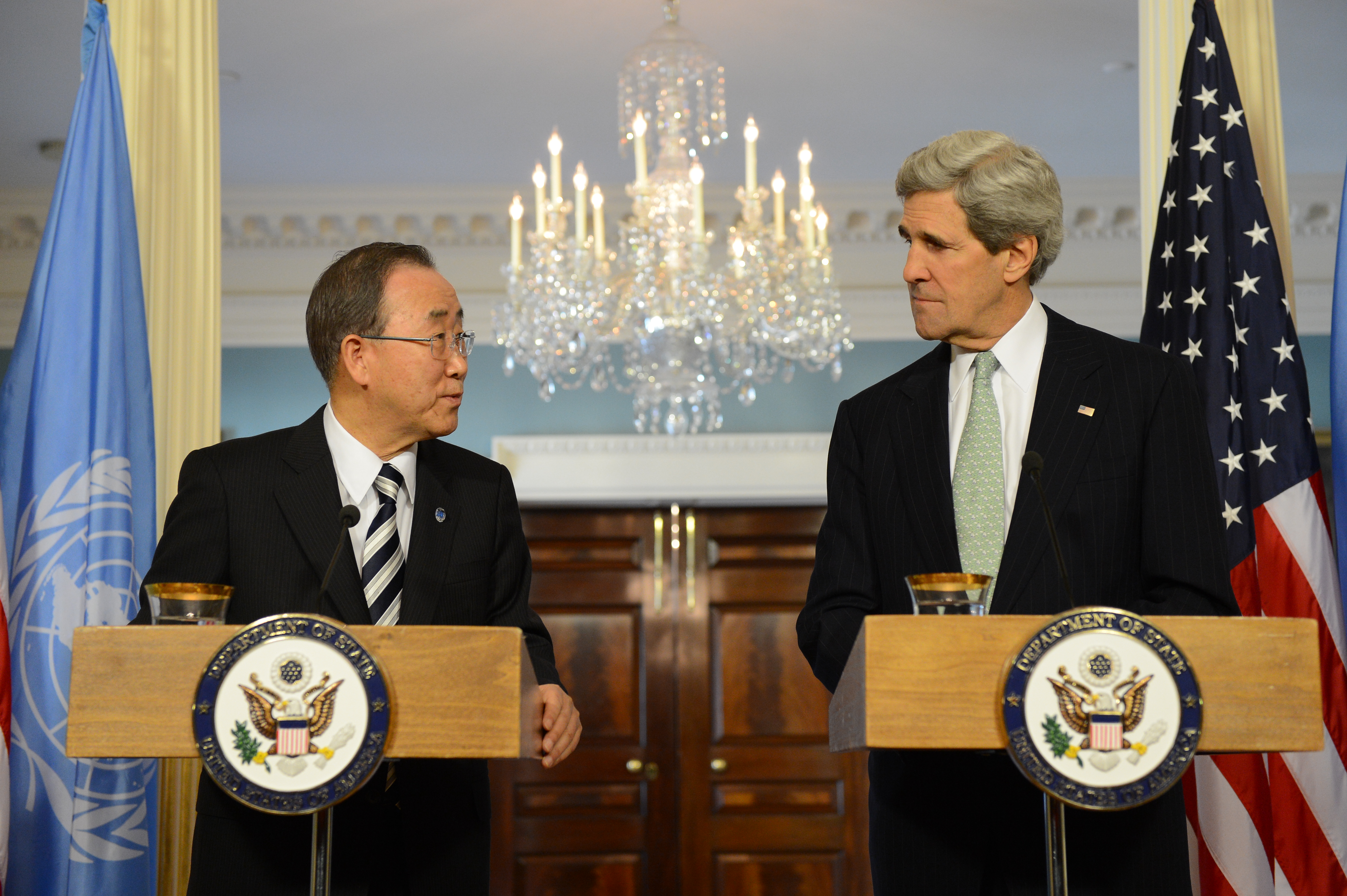 U.S. Secretary of State John Kerry and United Nations Secretary General Ban Ki-moon address reporters after their bilateral meeting at the U.S. Department of State in Washington, D.C., February 14, 2013. [State Department photo/ Public Domain]